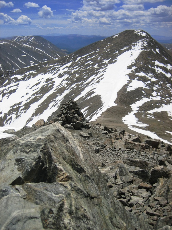 from torreys peak looking towards grays peak, another 14er. you can hike to grays from here, across a sadle in between the two peaks